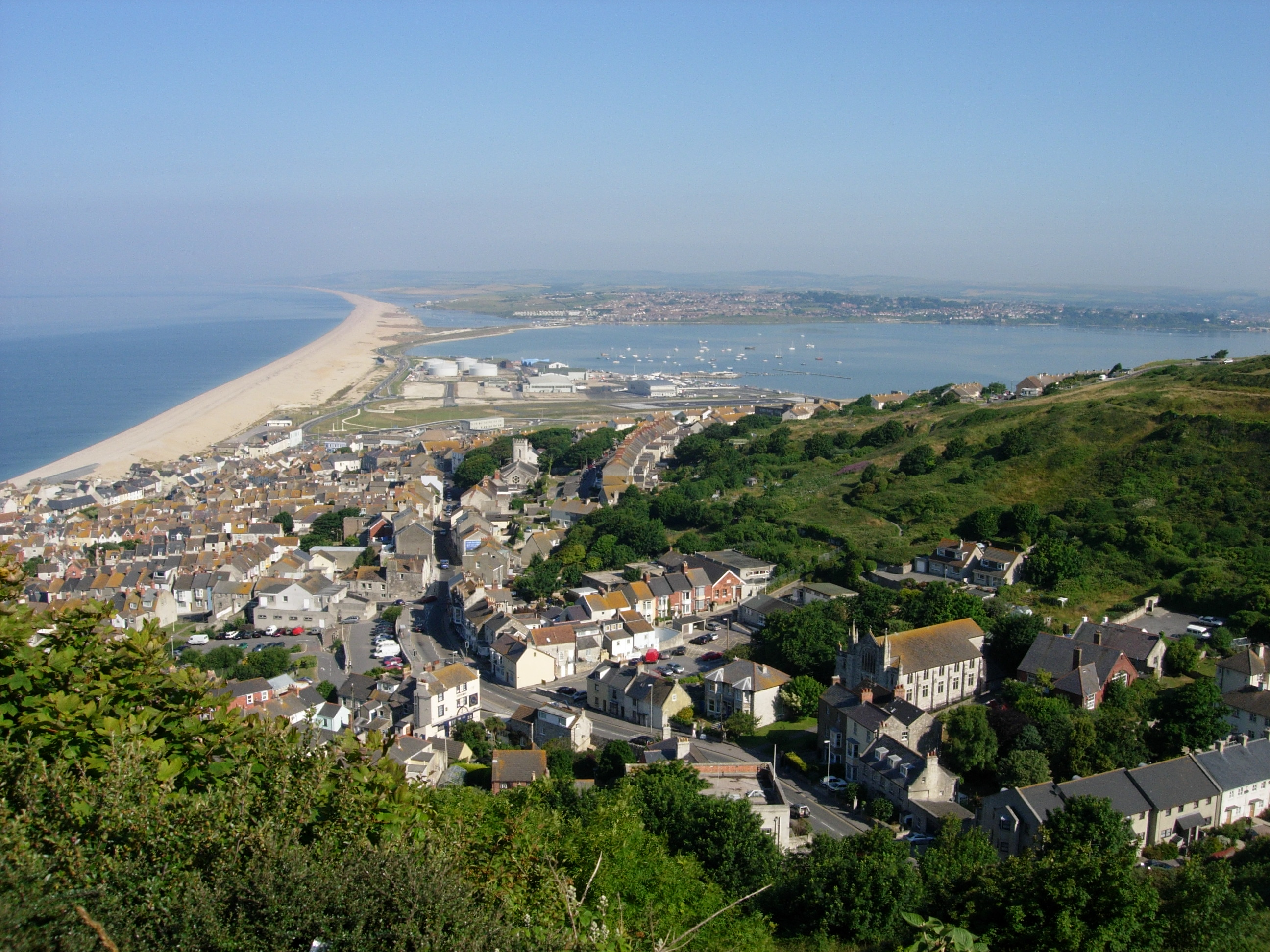 Chesil Beach viewed from the Isle of Portland.